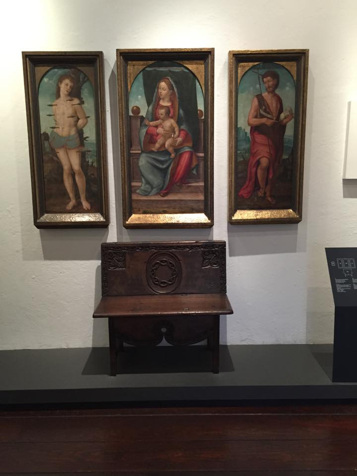 Parte de la exhibición de casa Risco, San Ángel, CDMX